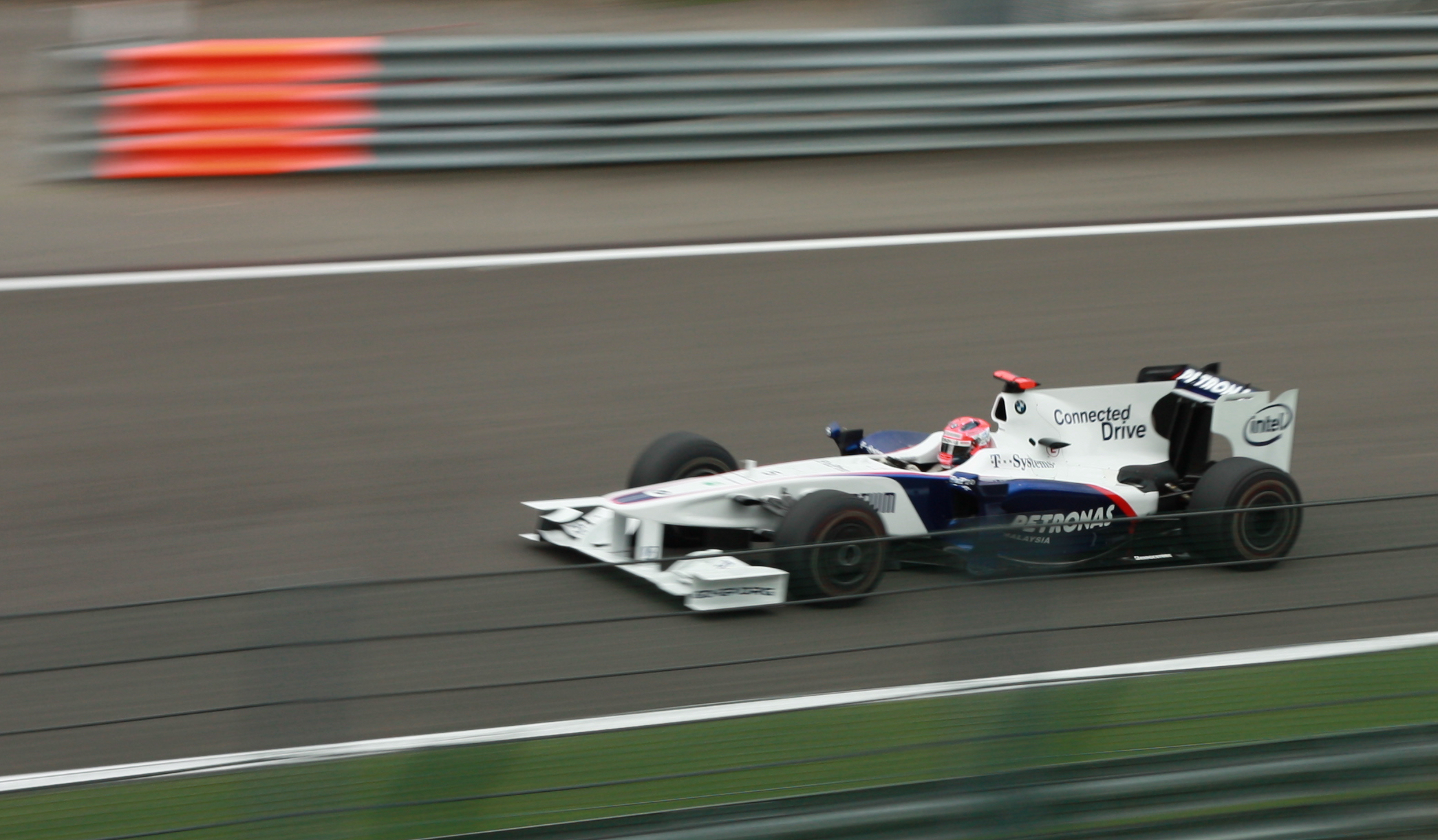 Robert Kubica driving for BMW Sauber at the 2009 Belgian Grand Prix.